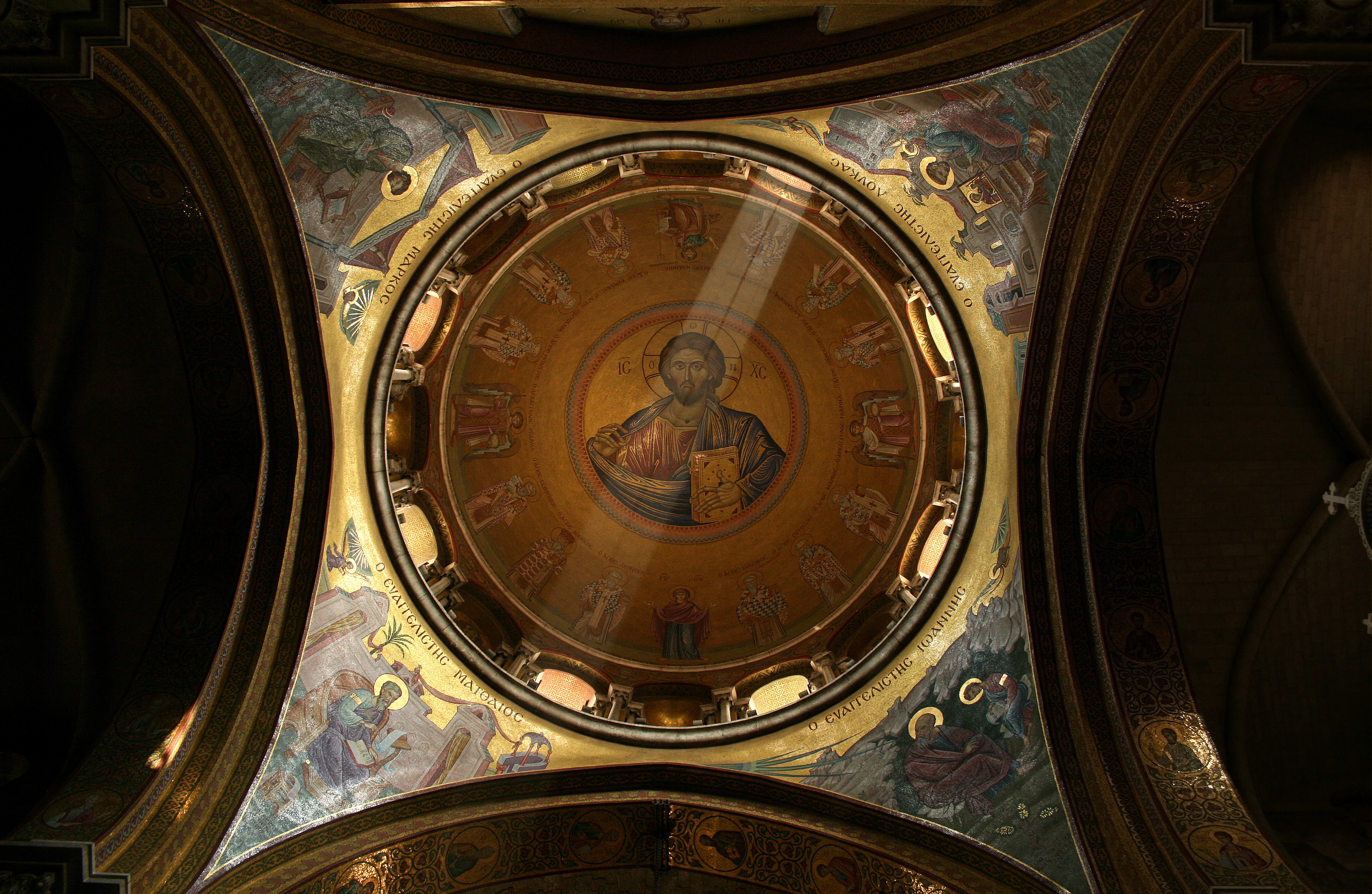 Catholicon, Church of the Holy Sepulchre, Jerusalem